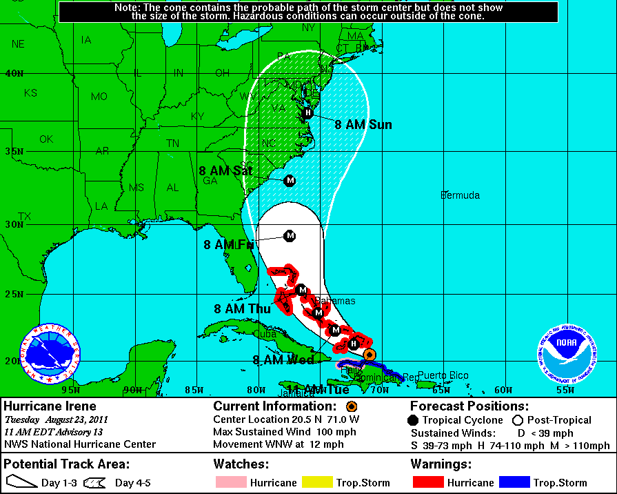 Hurricane Irene advisory 13